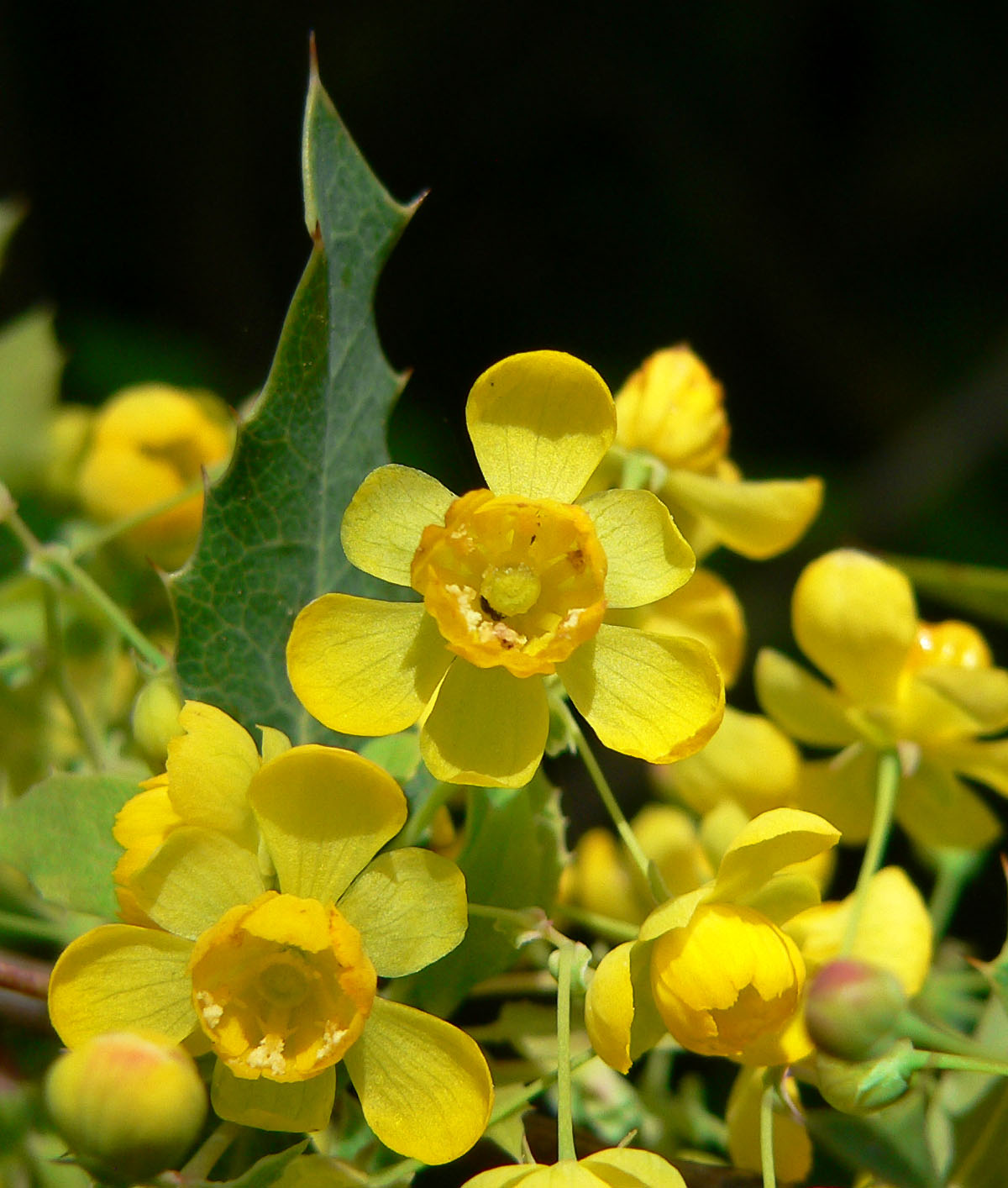 Photo of Berberis nevinii at the Regional Parks Botanic Garden, Berkeley, California